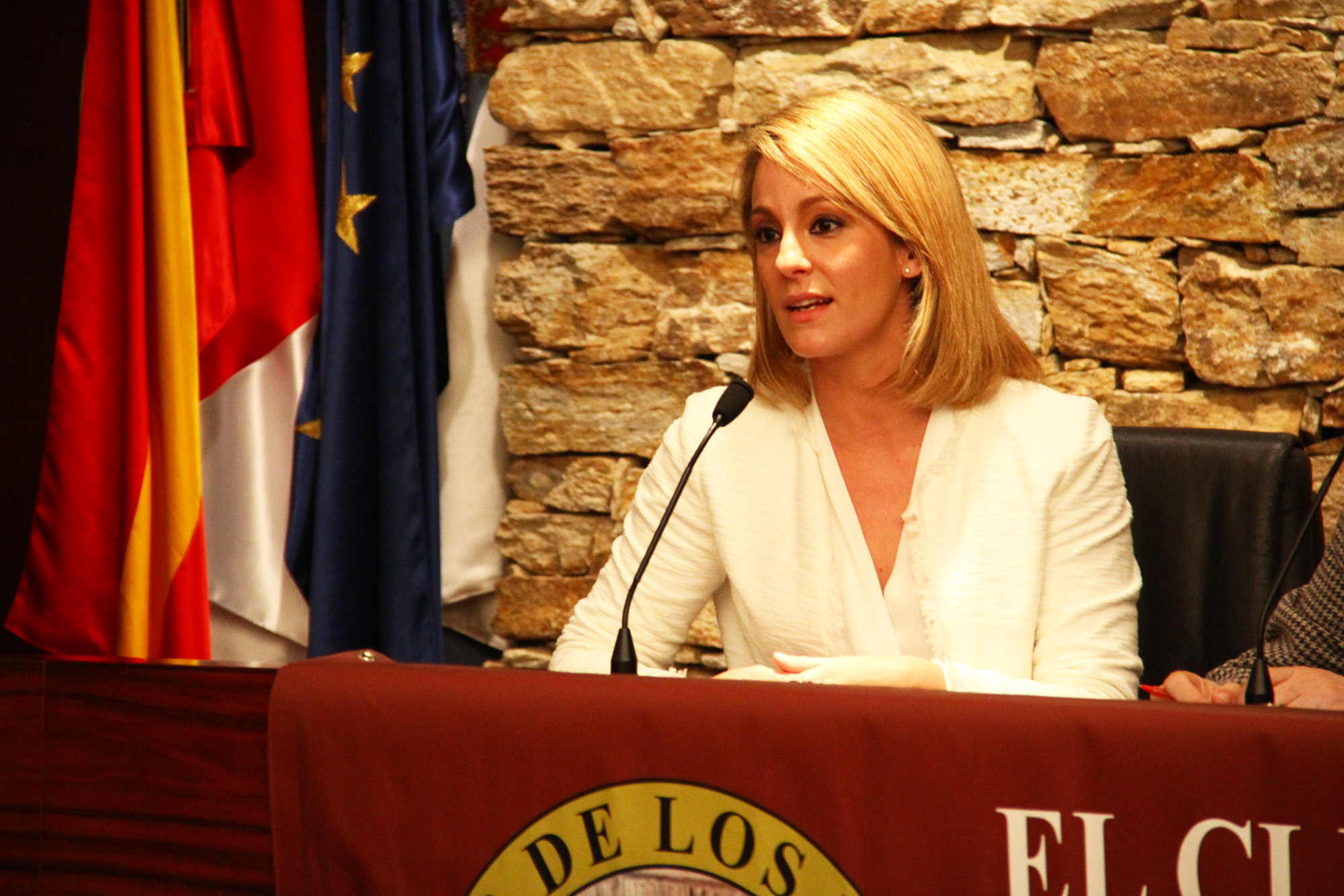 María Jamardo na presentación do "Club de los Viernes" en Vigo.